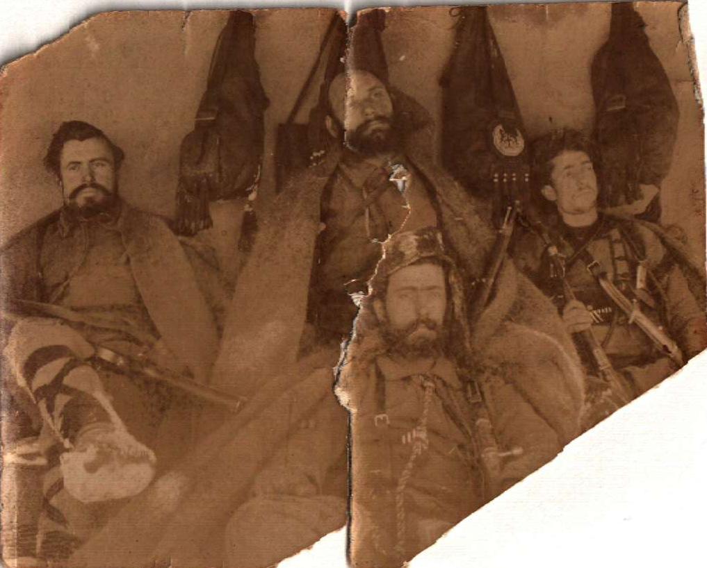 Second row: Petko Penchev, Yane Sandanski, Georgi Miadzhira. In front: Mihail Daev. Lopovo, January 1905.